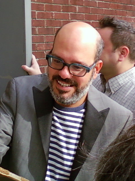 David Cross at Arrested Development 2011 Reunion